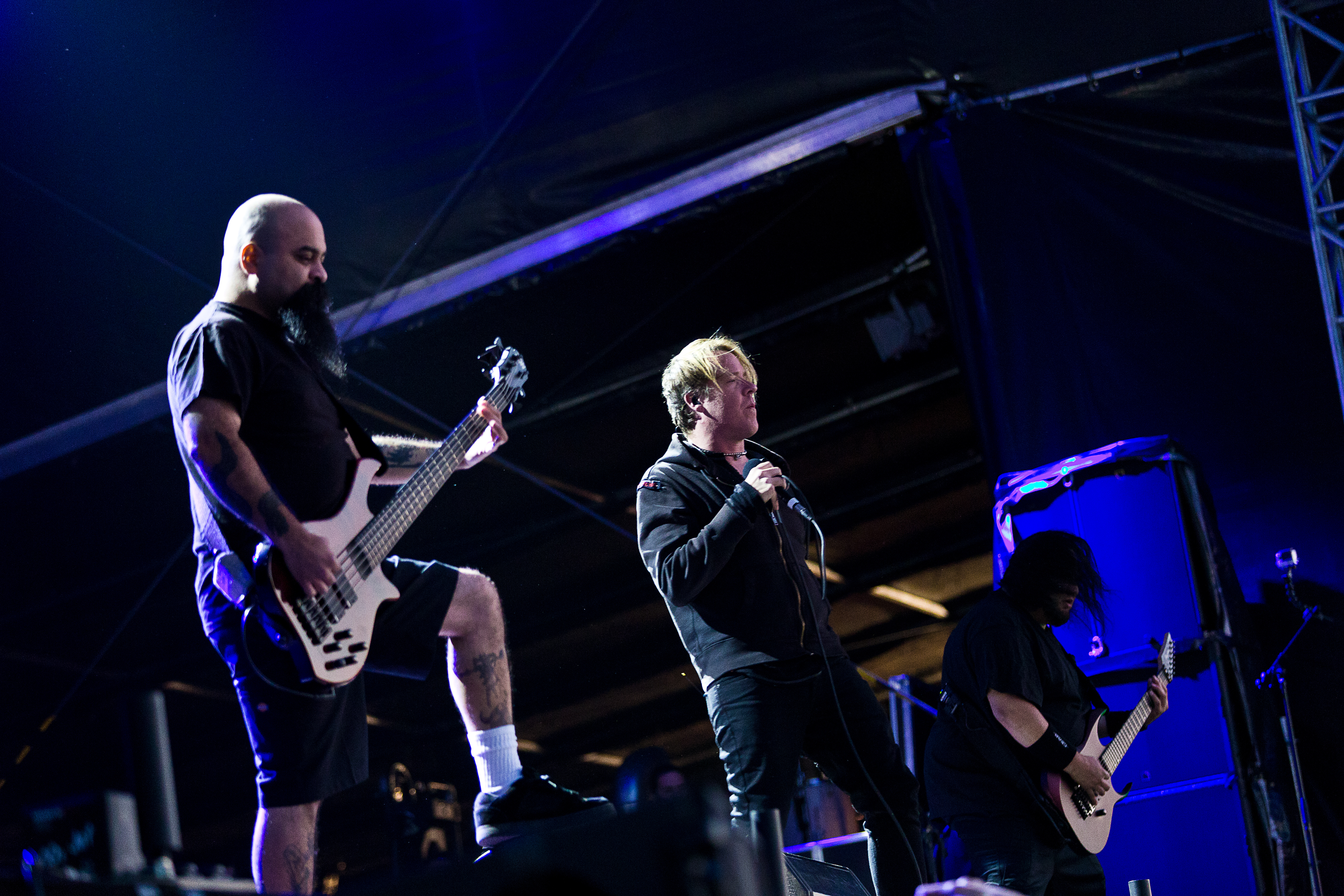 The American death metal band Fear Factory at the Rockharz Open Air 2015 in Ballenstedt/Germany.